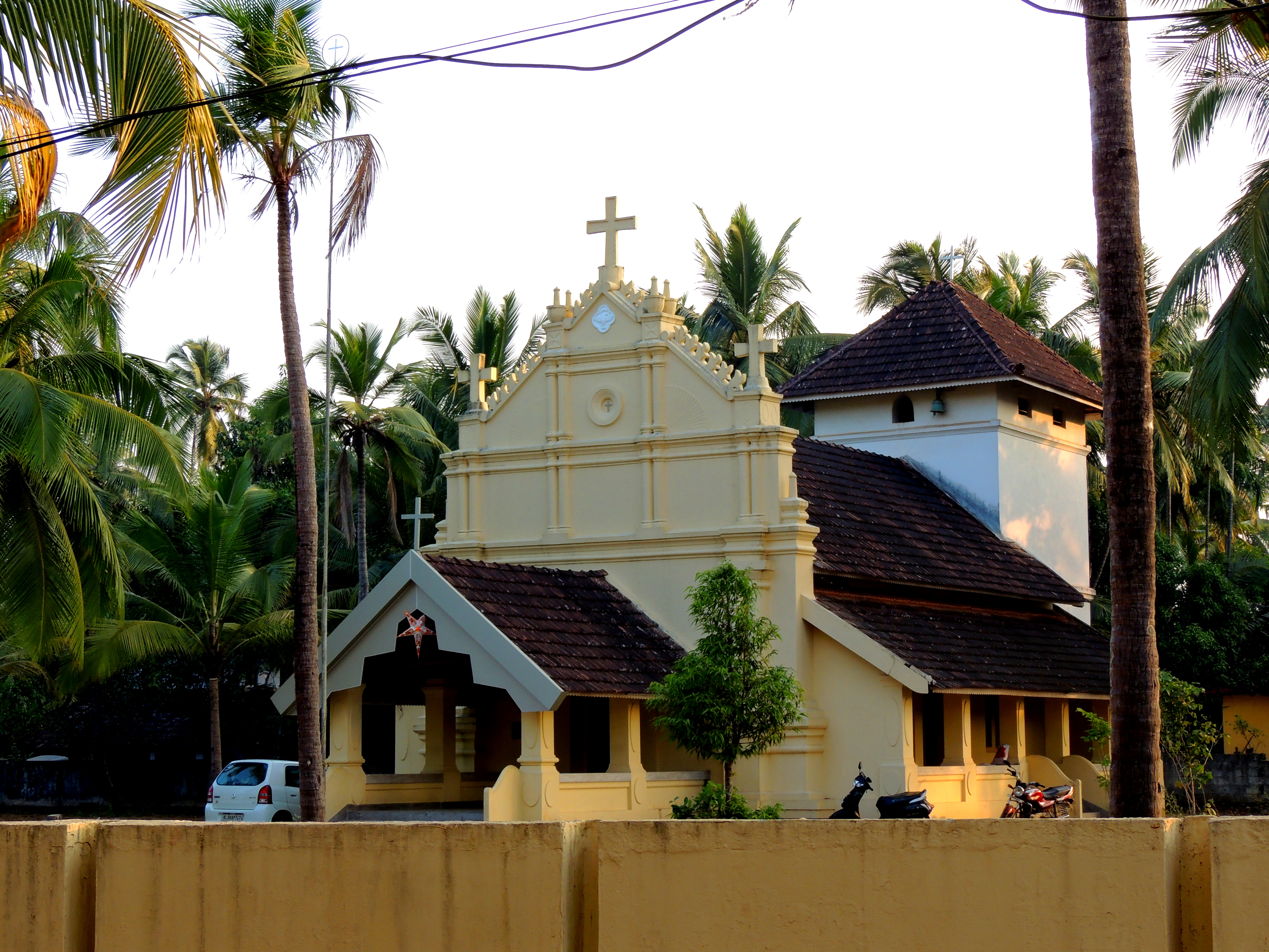 St.George Orthodox Church